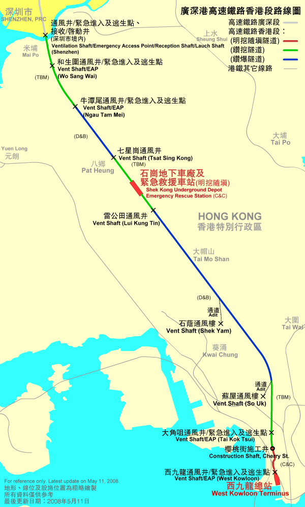 Map of the Hong Kong Section of the Guangzhou-Shenzhen-Hong Kong Express Rail Link in Traditional Chinese and English